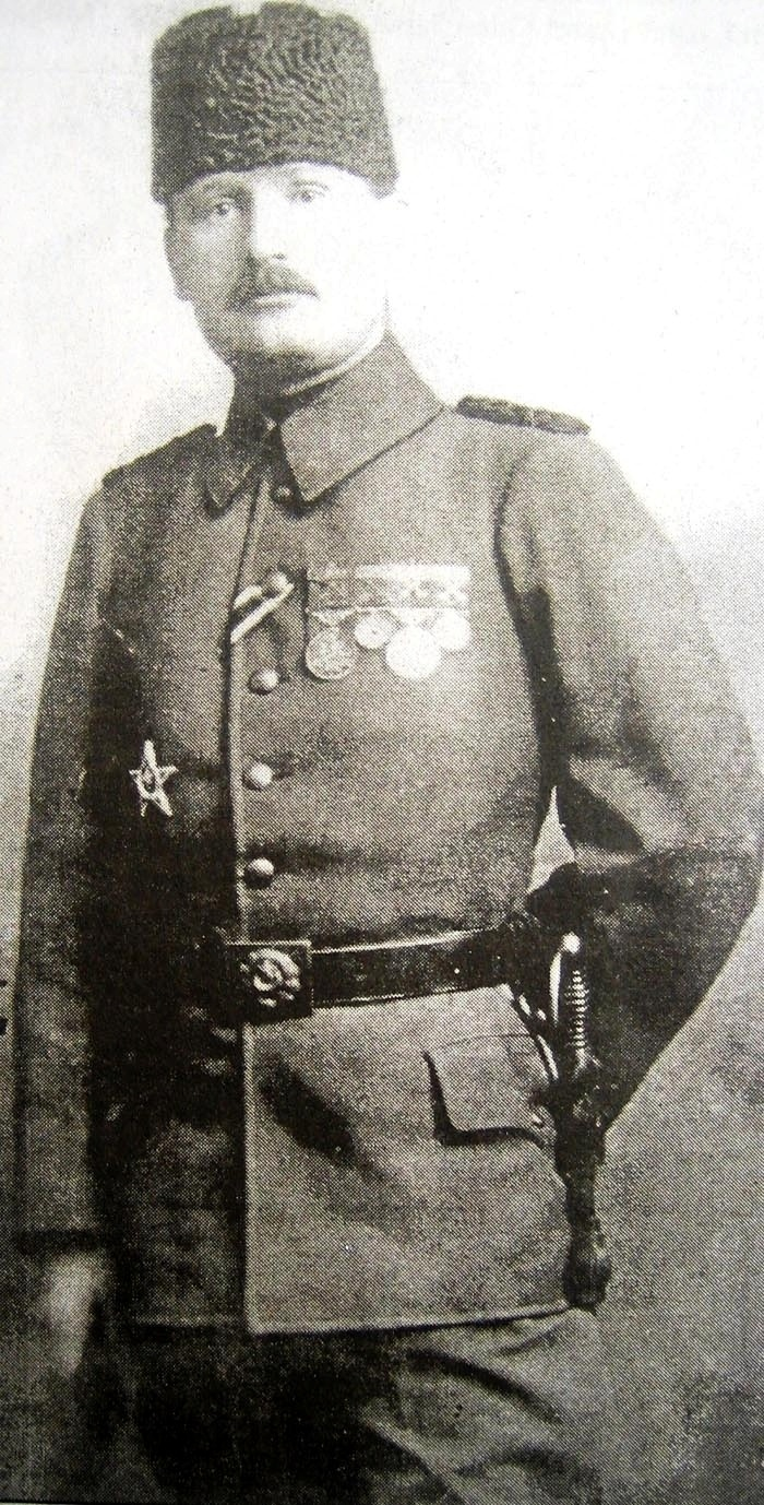 Deli Halid (Halit Karsıalan)